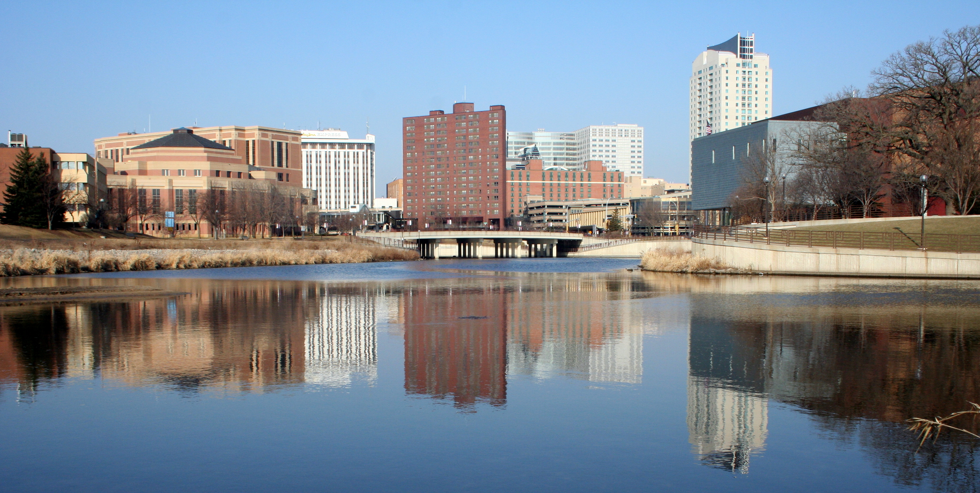 Downtown skyline from the Olmsted County Government Center (left) to the Mayo Civic Center (right) reflected in the confluence of Bear Creek and the Zumbro River in Mayo Park, Rochester, Minnesota.